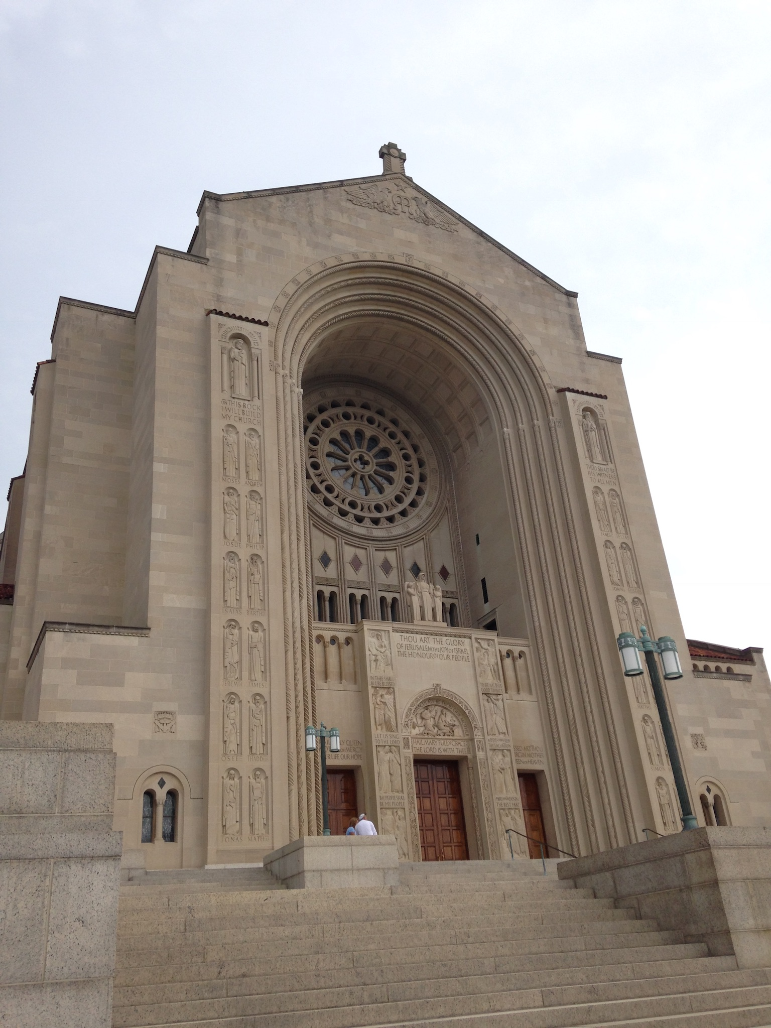 The Basilica of the National Shrine of the Immaculate Conception Front View of building detail